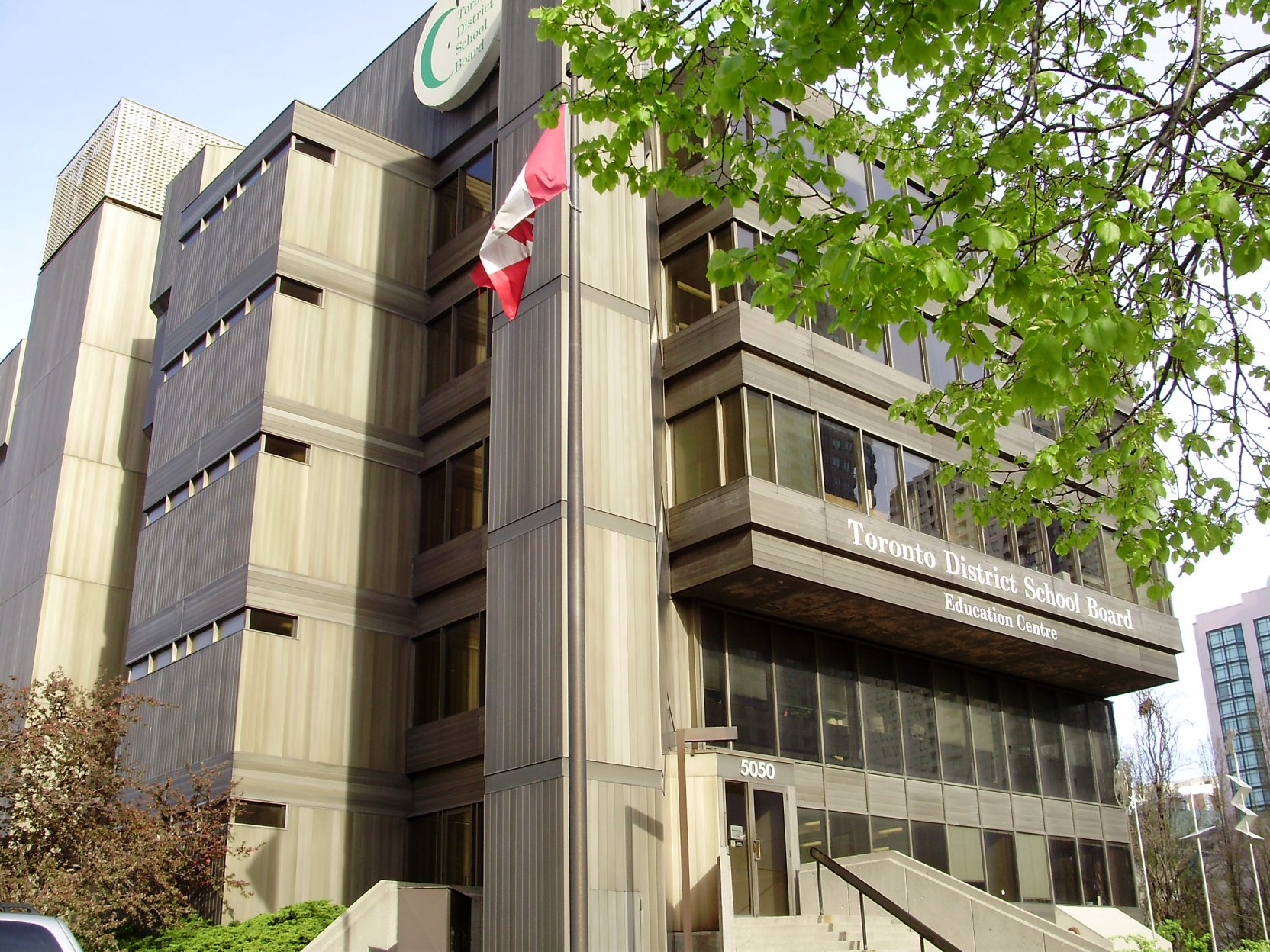 TDSB Education Centre - The head office of the Toronto District School Board at 5050 Yonge Street in North York, Ontario.